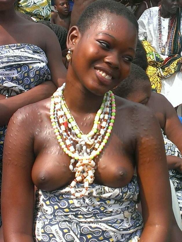 This photo has been taken in the country: Benin